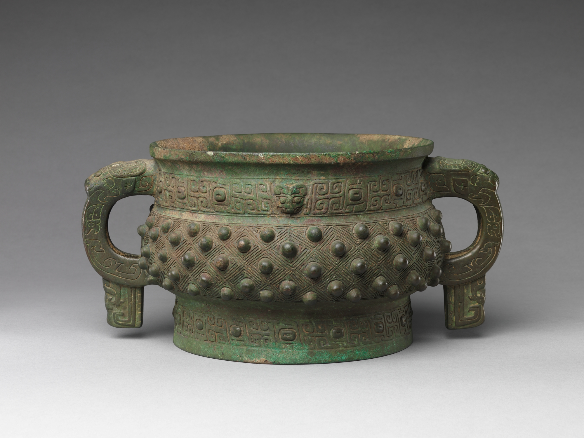 China; Vessel; Metalwork